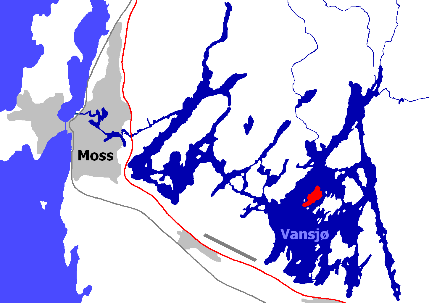 Map of the lake Vansjø. The island of Gudøya in red. Created by JohnM 21:39, 20 May 2006 (UTC)